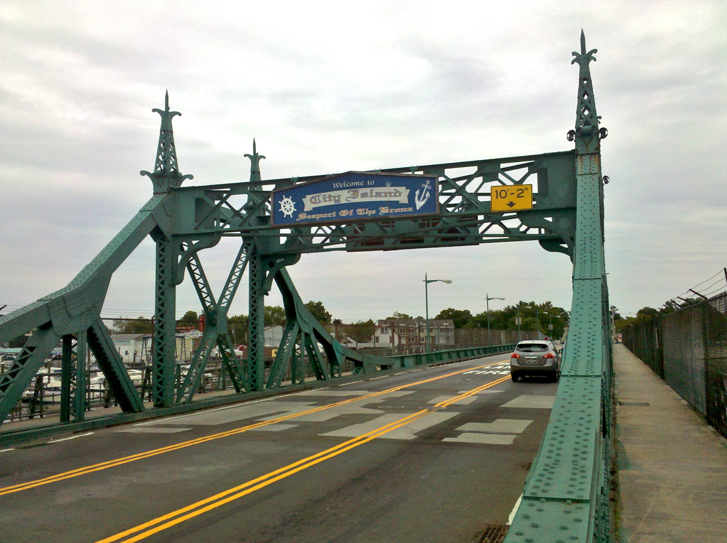 "Welcome to City Island" sign on the City Island Bridge, which connects The Bronx and City Island, in New York City.